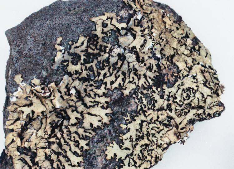 Xanthoparmelia angustiphylla (Gyelnik) Hale, 1988 (photograph of a herbarium specimen) Growing on rock along the shore of Lake Superior, W side of Highway 17, 12.5 miles N of Pancake Bay Provincial Park, Ontario, Canada; collected and identified by Richard E. Riefner (No. 81-515, 21 Jul 1981); specimen is now in the Lichen Herbarium of the New York Botanical Garden.